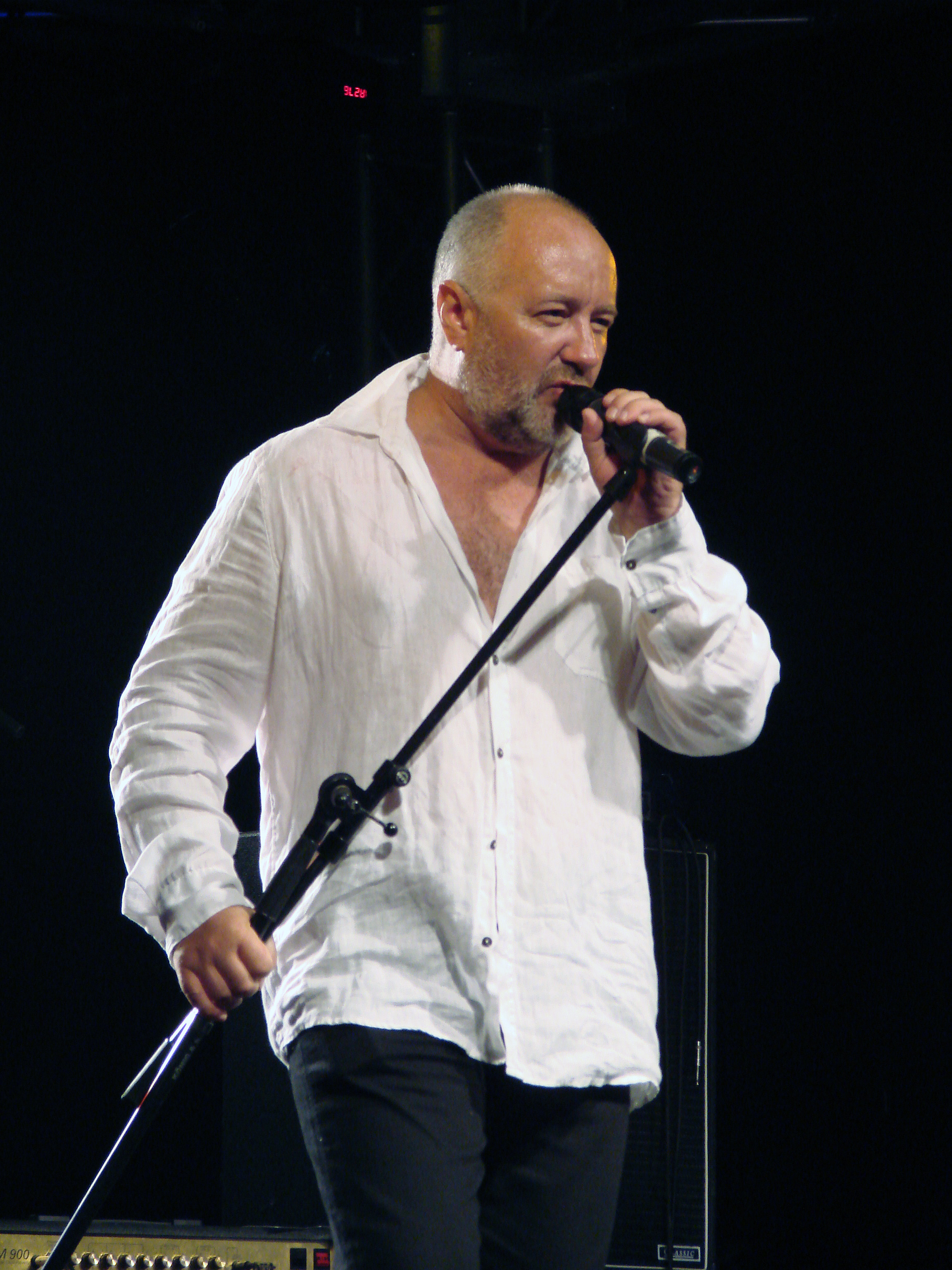 Aivars Brīze uztājās ar grupu Leğions 2008. g. Saldus saulē Foto: Raitis Freimanis